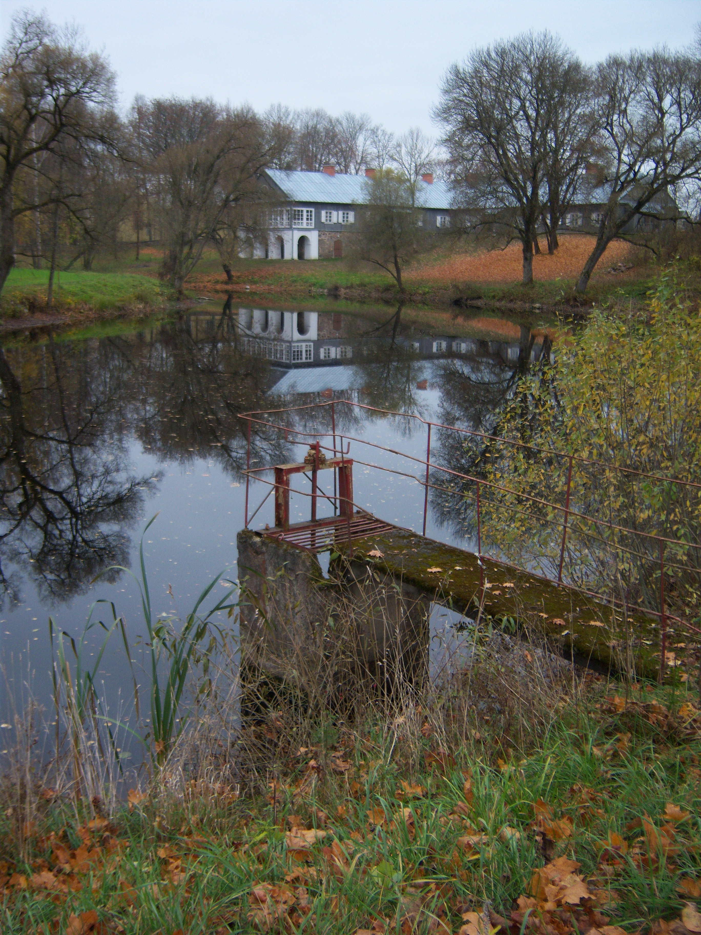 Former manor, pond, Adomynė, Kupiškis District, Lithuania